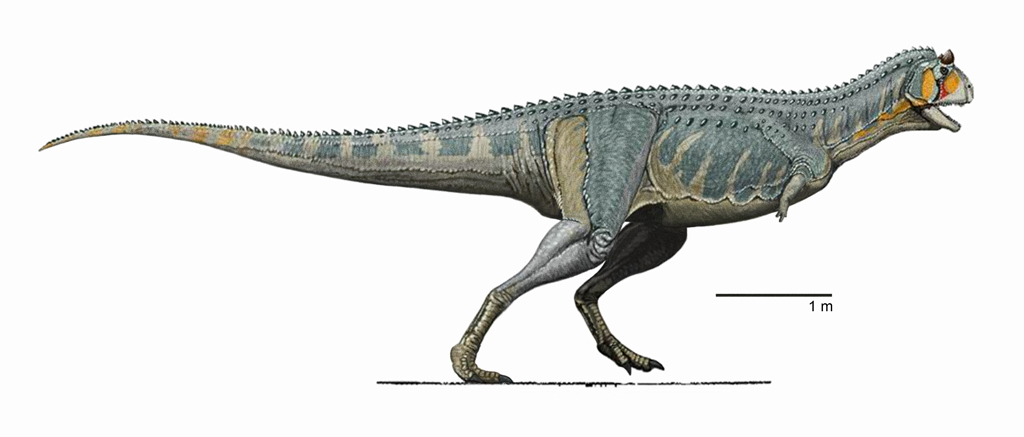 Carnotaurus - reconstruction This is an altered version of an image by user DiBgd • In the original image the legs were probably too straight. Most dinosaur knees, with the exception of sauropods and some stegosaurs, might not have been able to straighten much past ~120 degrees with out dislocating. 'The Extreme Lifestyles and Habits of the Gigantic Tyrannosaurid Superpredators of the Late Cretaceous of North America and Asia' / Gregory S. Paul in Tyrannosaurus Rex, the Tyrant King by Peter Larson and Kenneth Carpenter (2008).